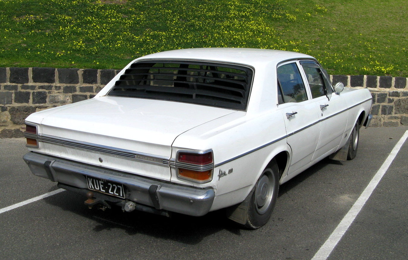 1971 Ford Falcon 500